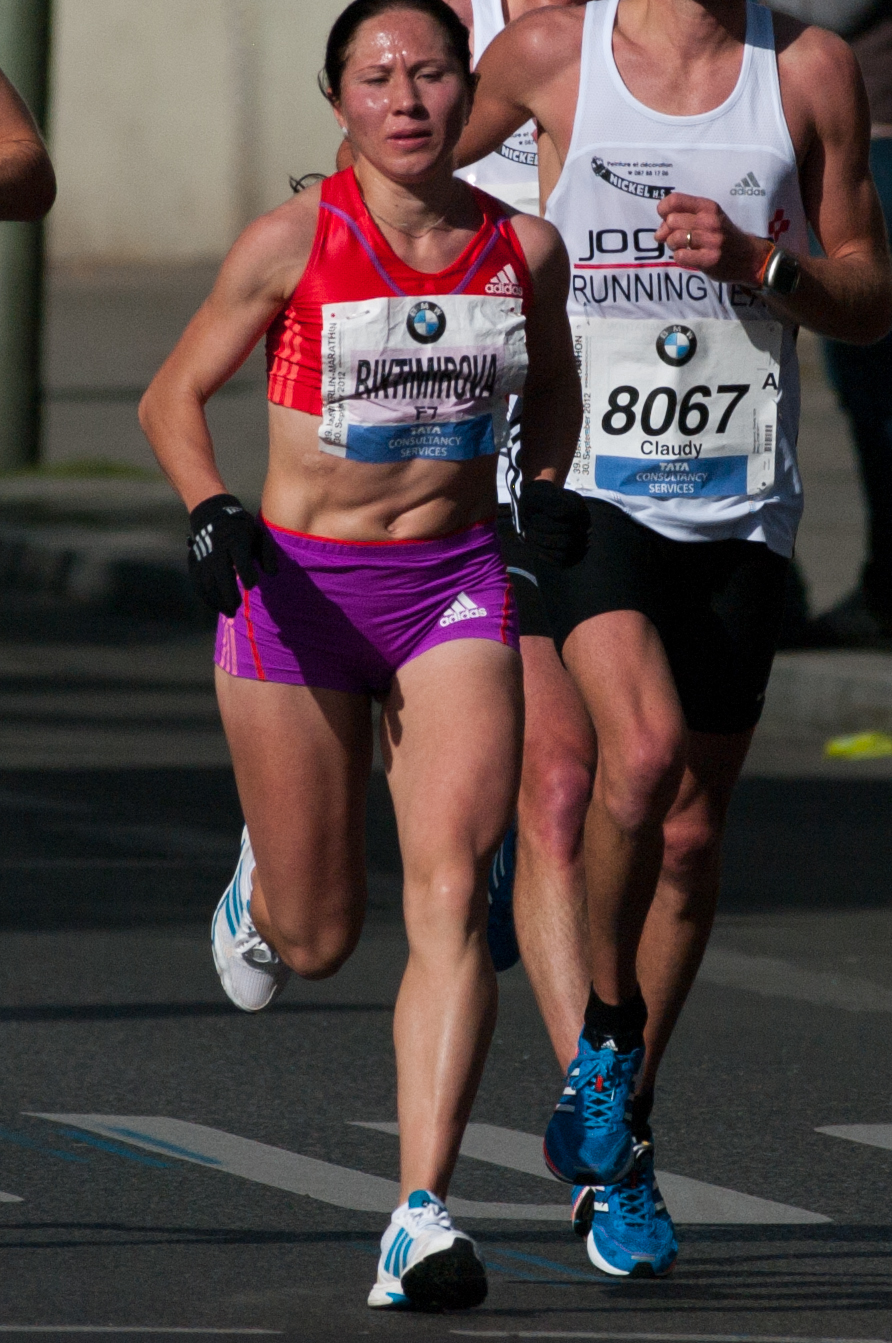 Russian runner Alevtina Biktimirova at the 2012 Berlin Marathon. Here at Bülowstraße, between Kilometers 36 and 37.